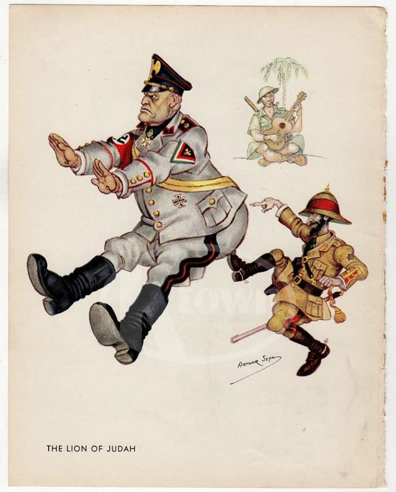 A caricature by Arthur Szyk from his book "The New Order": Haile Selassie I of Ethiopia kicking Benito Mussolini's ass.